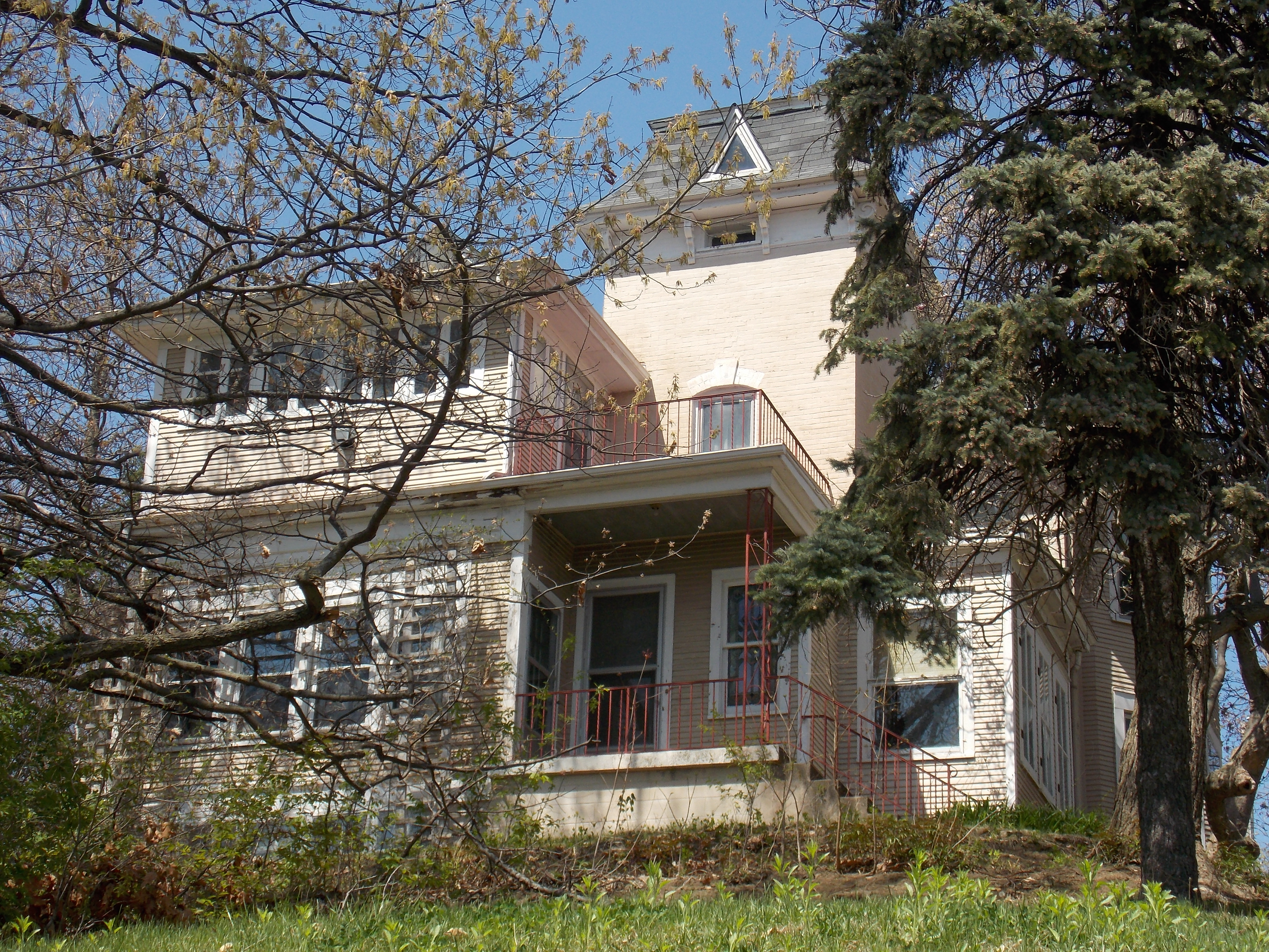 The Samuel Hoffman House in Davenport, Iowa is a contributing property in the Riverview Terrace Historic District.